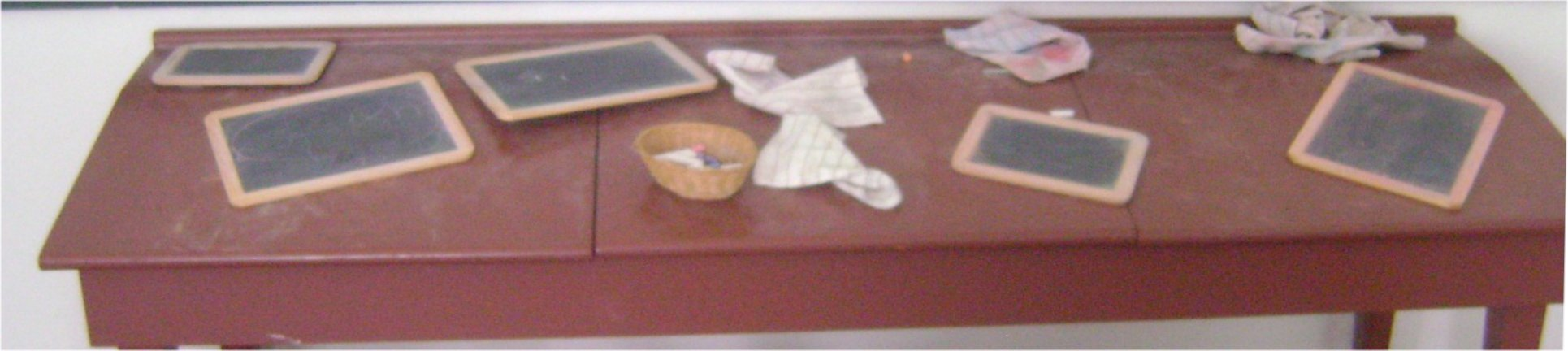 Slate boards & chalk - typically used in 19th-century American log cabin schools